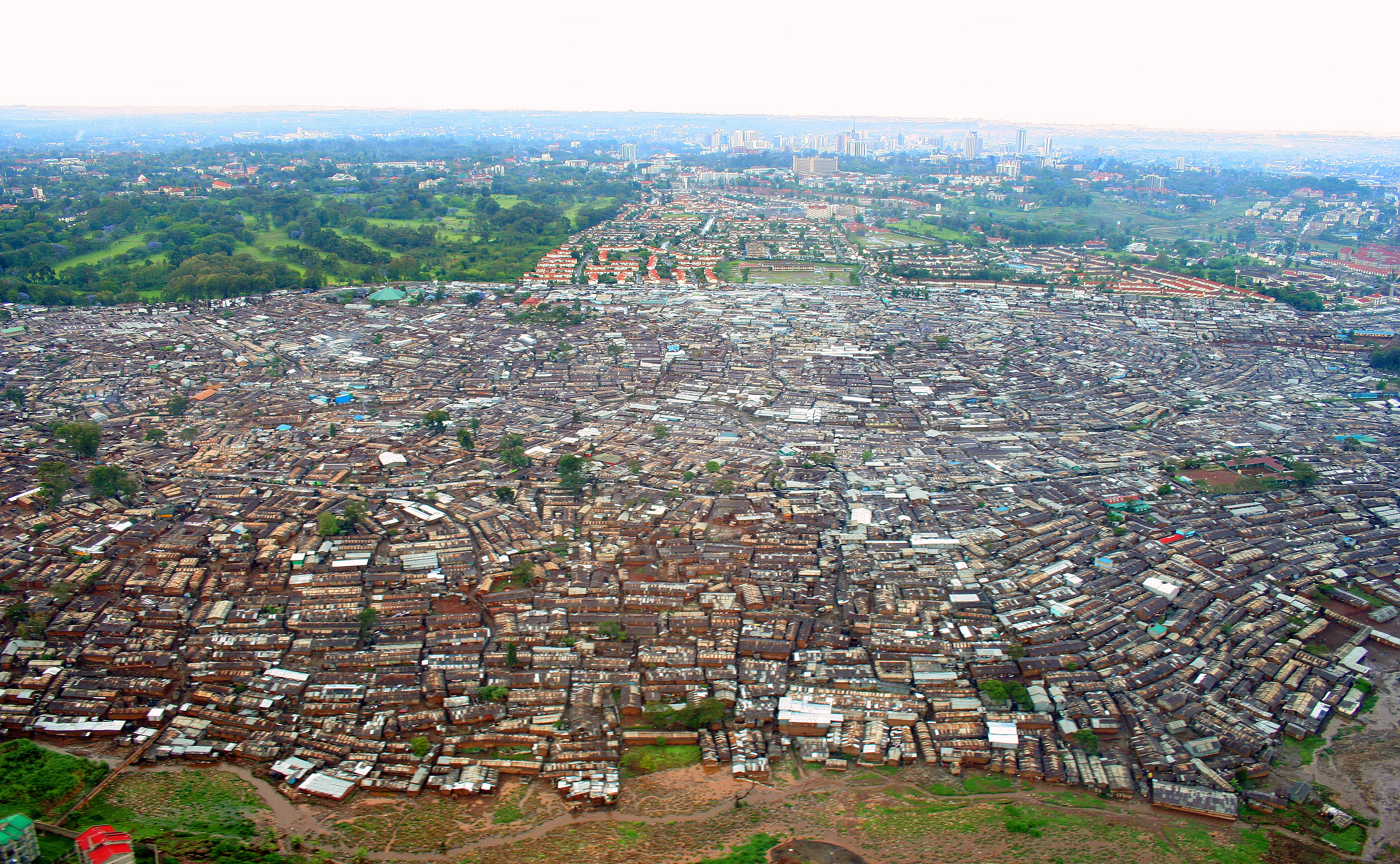 Slum Kibera in Nairobi, seen from above